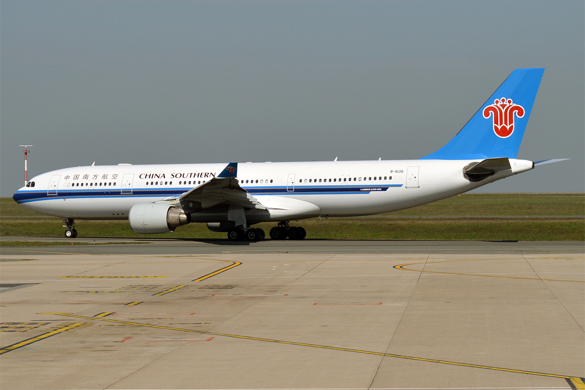 China Southern Airlines, B-6135, Airbus A330-223 CZ348